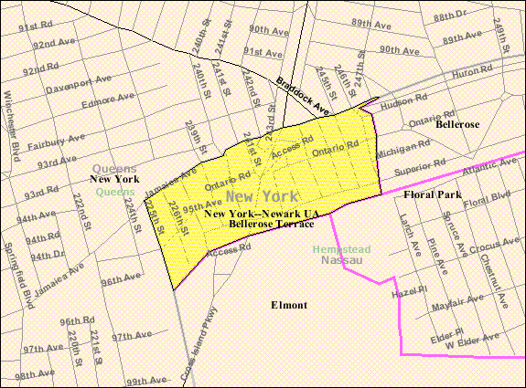 U.S. Census 2000 reference map for Bellerose Terrace, New York